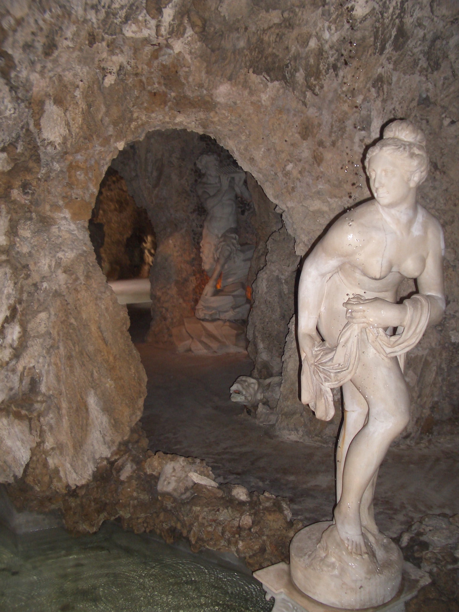 Villa Visconti Borromeo Arese Litta, Lainate (Milano, Italy). "Grottone" (i.e. "Big Grotto") in the nymphaeum.